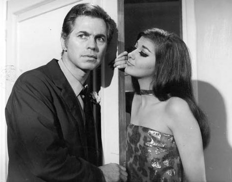 La cama (1968) - película Argentina de 1968